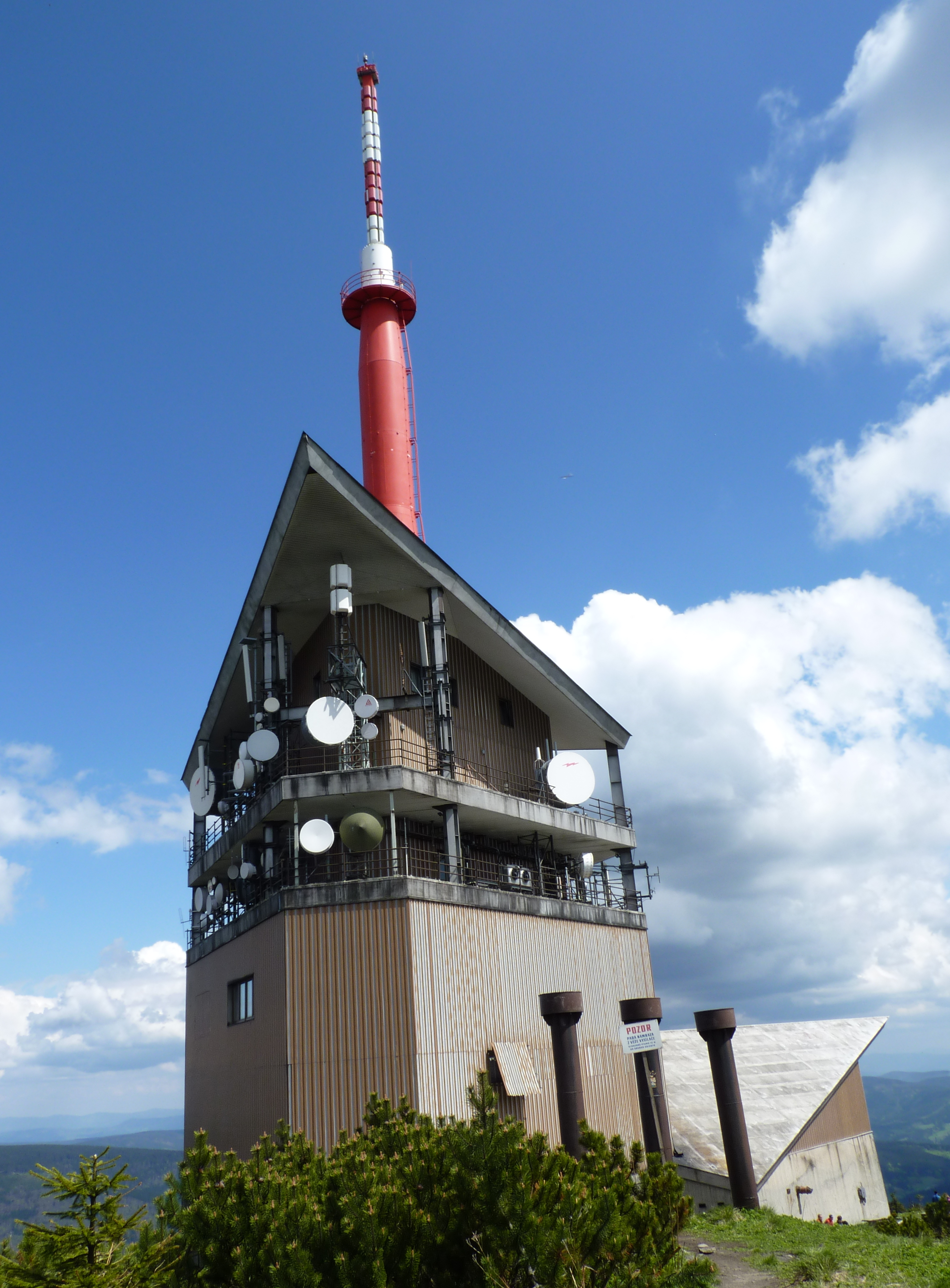 Top of Lysá hora. Moravian-Silesian Beskids, Moravian-Silesian Region, Czech Republic Project: Chráněná území